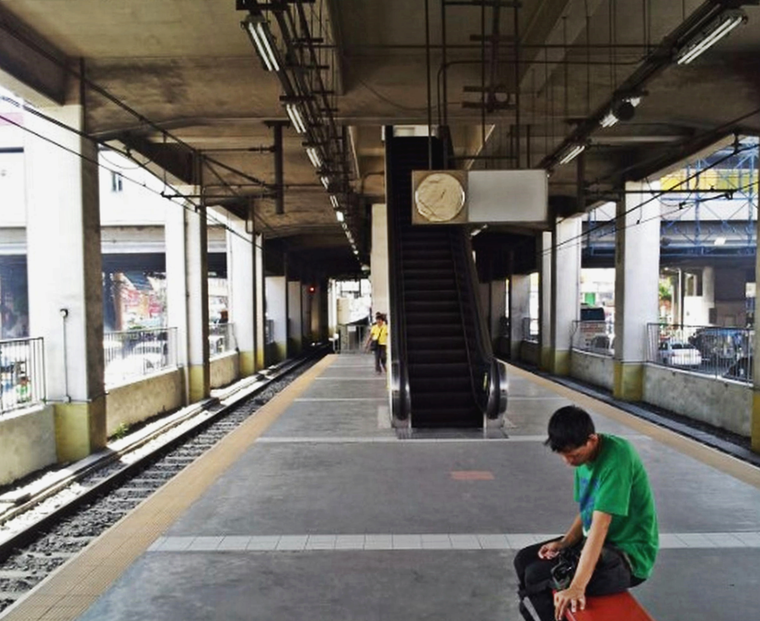 MRT-3 Taft Avenue Station Platform Area.